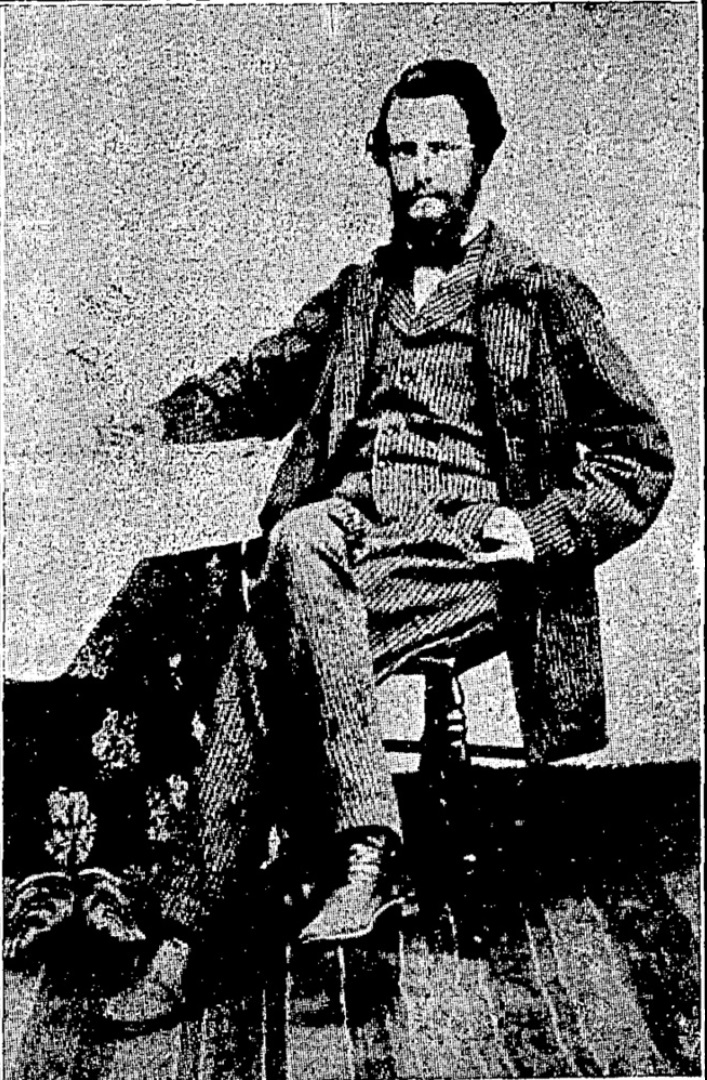 New Zealand Architect George Frederic Allen, 1903. Mr. George Frederic Allen, (New Zealand Illustrated Magazine, 01 April 1903). Alexander Turnbull Library, Wellington, New Zealand.